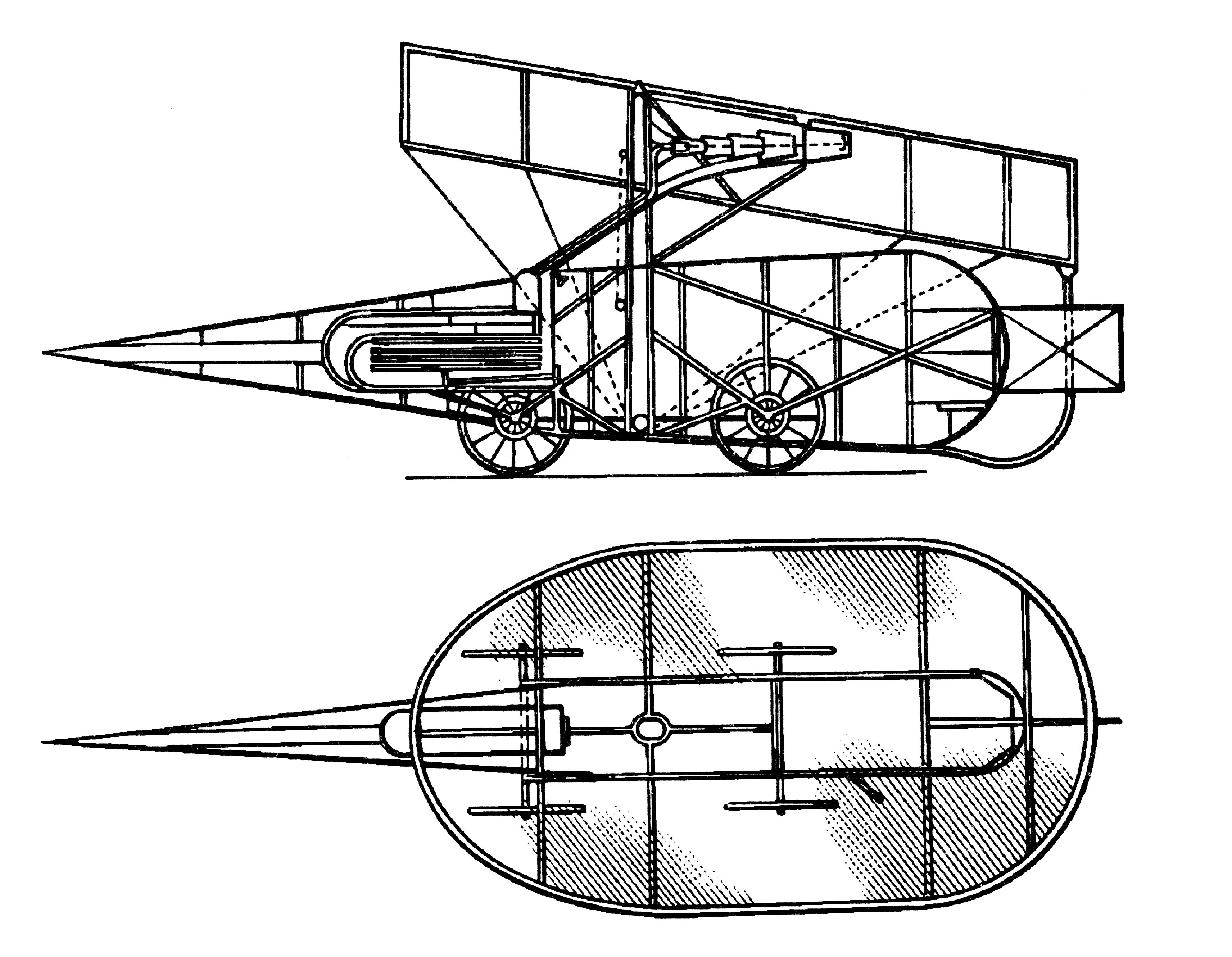 Parolyot (Steam Flyer), a project of a jet-propelled aircraft designed by the engineer from Kiev Feodor Geshvend (1839—1890).The outline from a brochure by F. Geshvend.Technical characteristics of Parolyot (expected by the inventor):Configuration: tailless biplane with oval wings; framework of metal tubes, covering of metal (fuselage) and of linen (wings). Wingspan: 3.0 m. Wing area: 32.5 m².Loaded weight: circa 1300 kg.Takeoff speed: 116 km/h.Max speed: 280 km/h.Power plant: steam jet engine (the aircraft was supposed to be propelled with the jet of steam generated in a tube boiler).Thrust: 1300 kg (according the estimation of V.S. Mikhaylov (1980) the real thrust could not be more than 10 kg).Feodor Geshvend expected that Parolyot would be able to make a flight from Saint Petersburg to Kiev in 6 hours with 5—6 stopovers.The aircraft of Feodor Geshvend was never built.The project was published in: Ф. Гешвенд (1887) Общие основания устройства воздухоплавательного парохода «Паролёт» [The Aeronautical Steamer Parolyot: The General Fundamentals of Design], Kiev